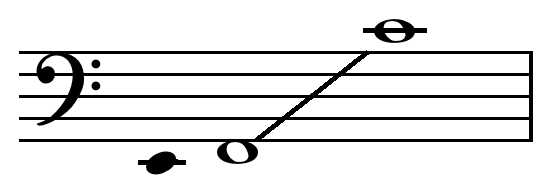 Bass voice range.